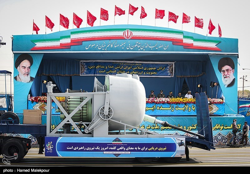 Fajr-27 naval gun of Iran on a parade